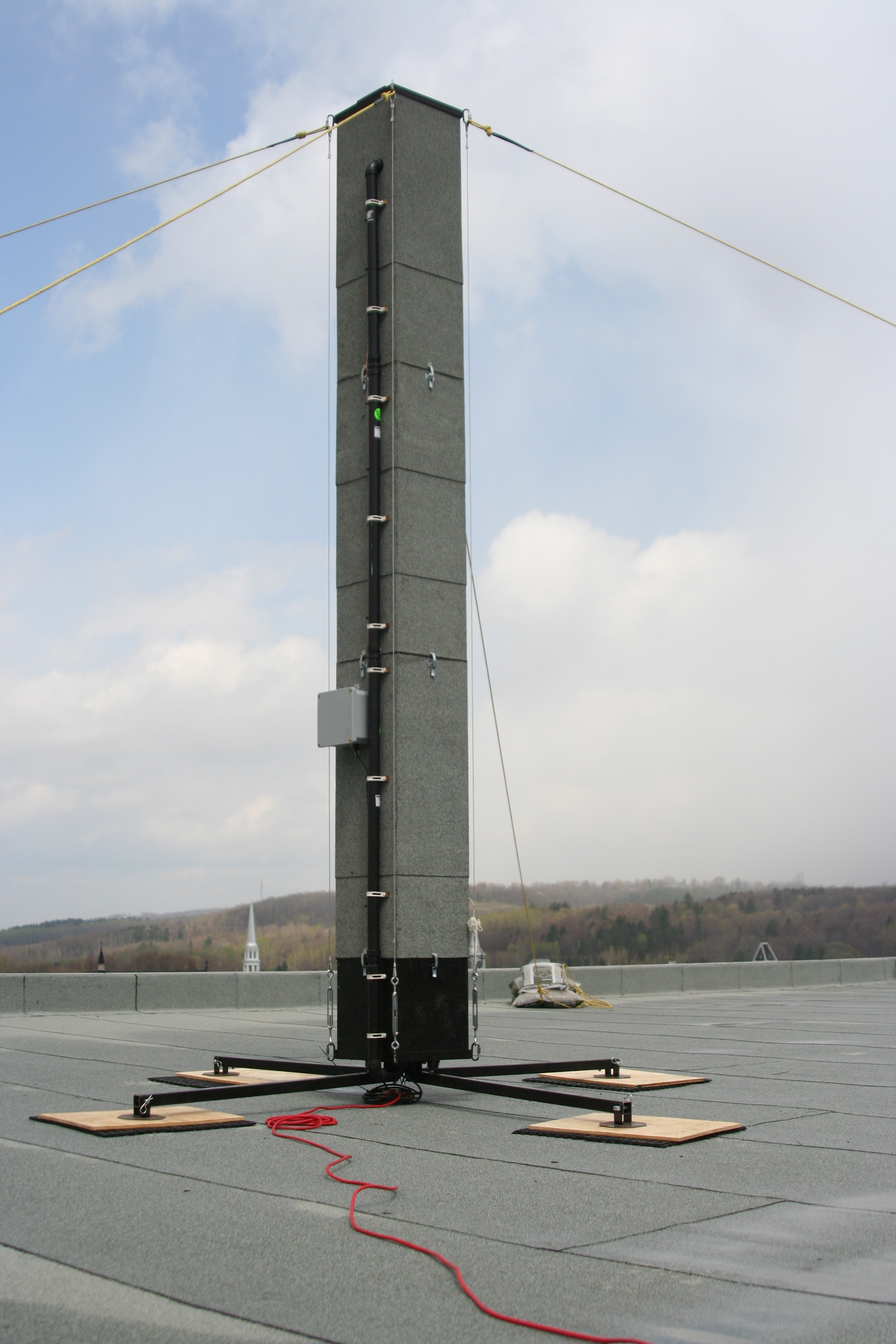 Nesting tower for Chimney Swift